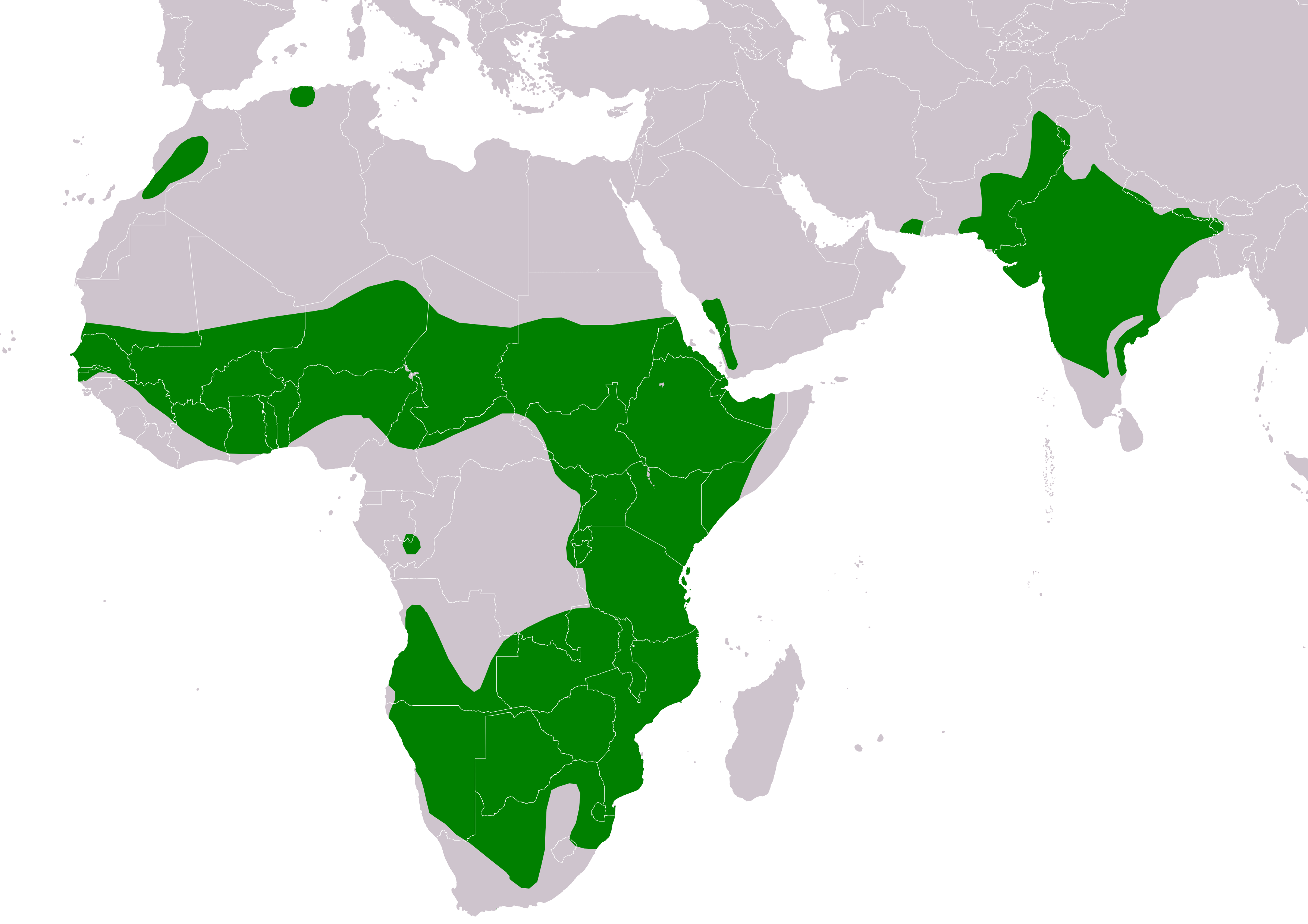 The distribution map of tawny eagle (Aquila rapax) according to IUCN version 2019.1; key: Legend:Extant, resident (#008000)